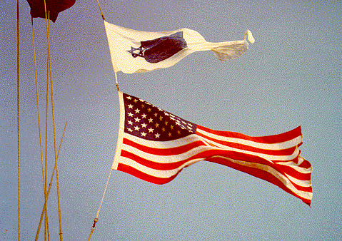 U.S.Navy Jewish Worship Pennant, flying over the American flag on a U.S. Navy ship, showing that a chaplain is conducting a Jewish worship service. Only the worship pennant (Jewish or Christian) is ever flown over the American flag on U.S. Navy vessels.